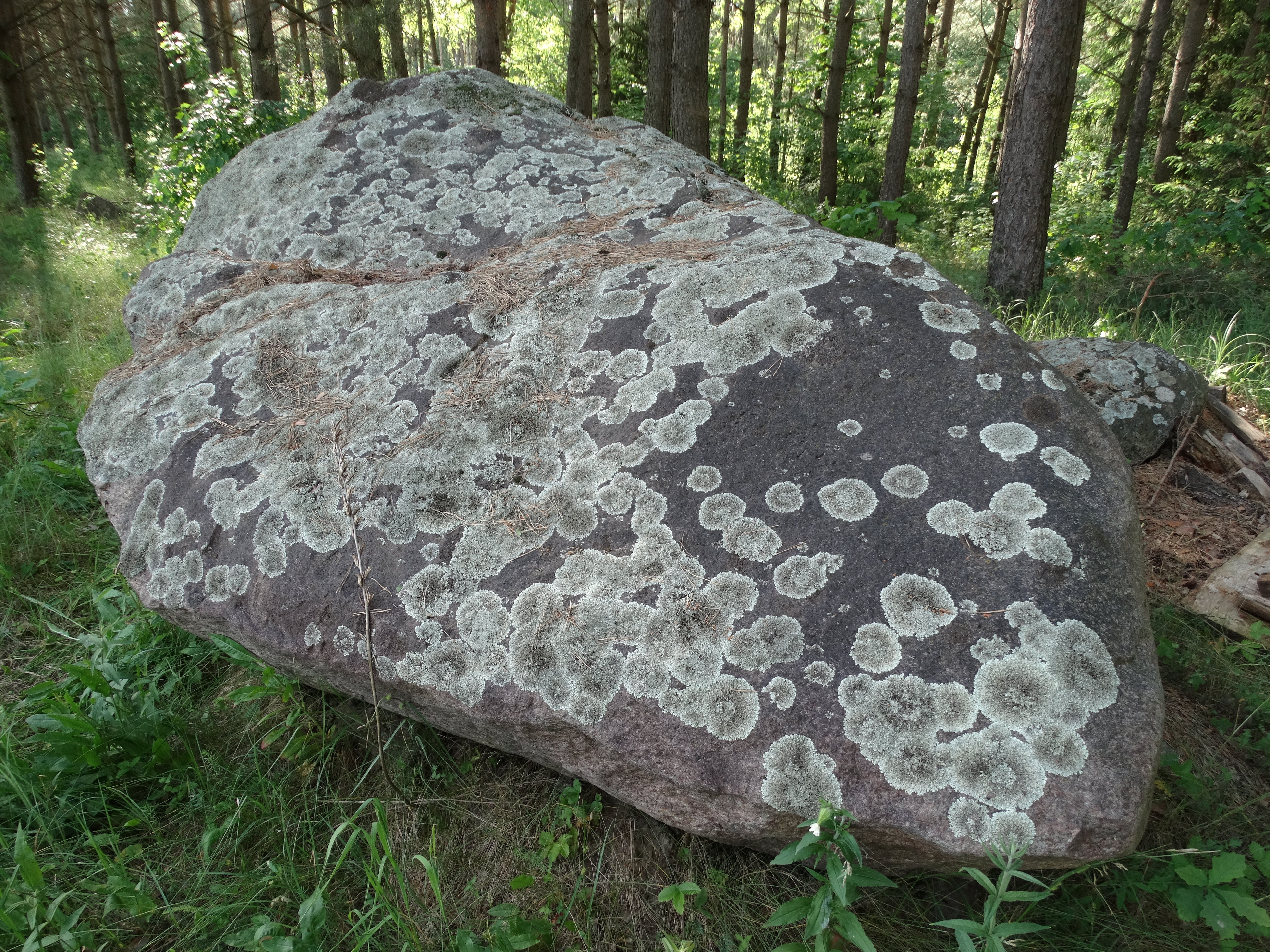 Boulder in Kopūstėliai, Ukmergė district, Lithuania